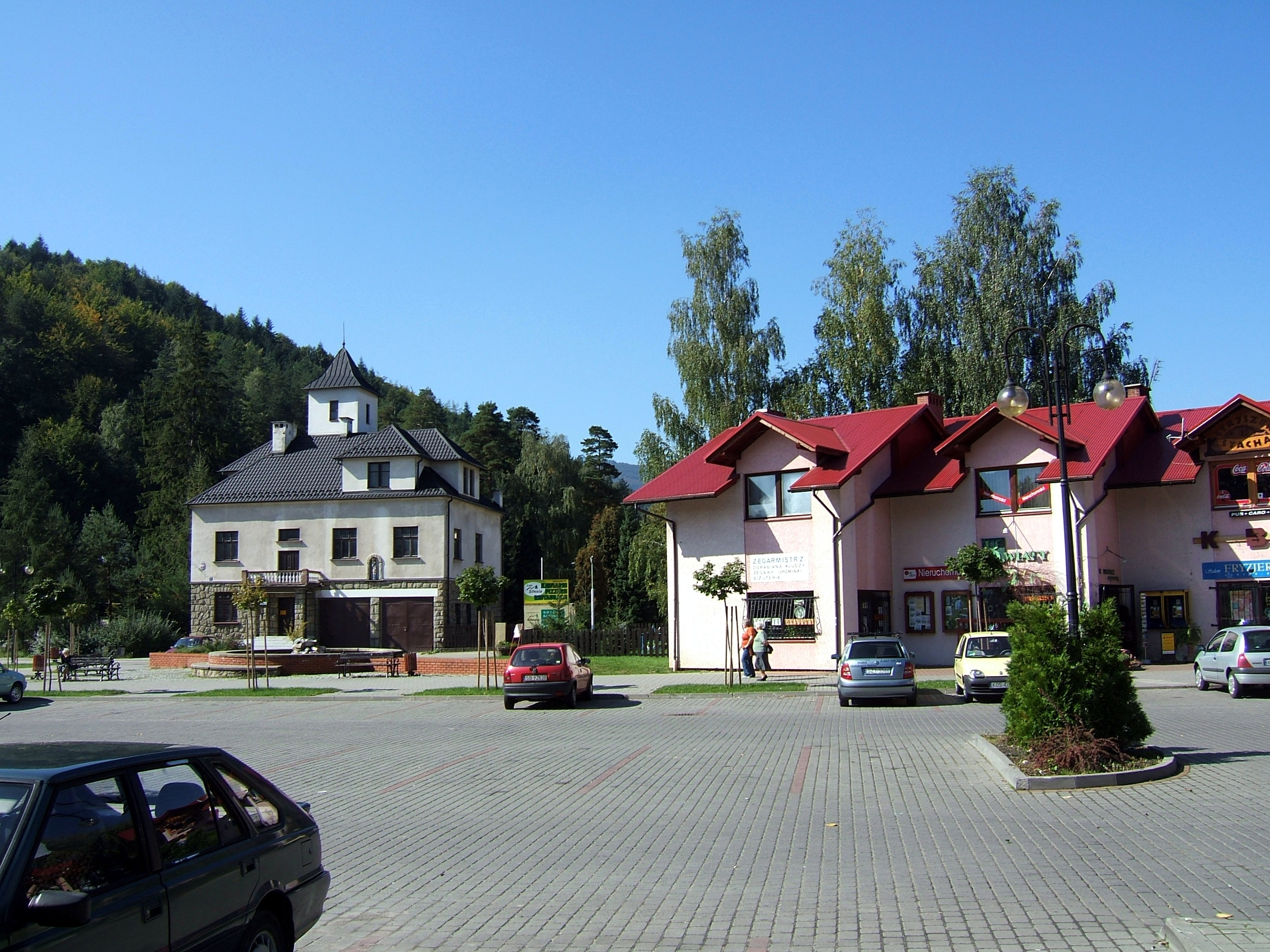 Center of Międzybrodzie Bialskie.